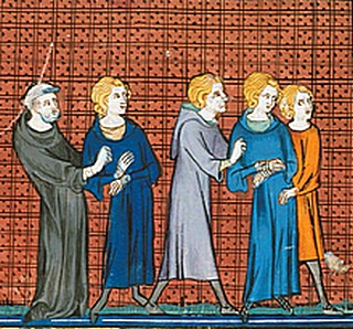 Prisoners Conradin and Henry of Castile